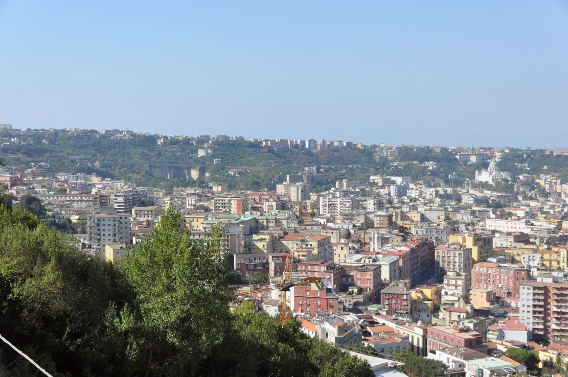 Neapel 2012